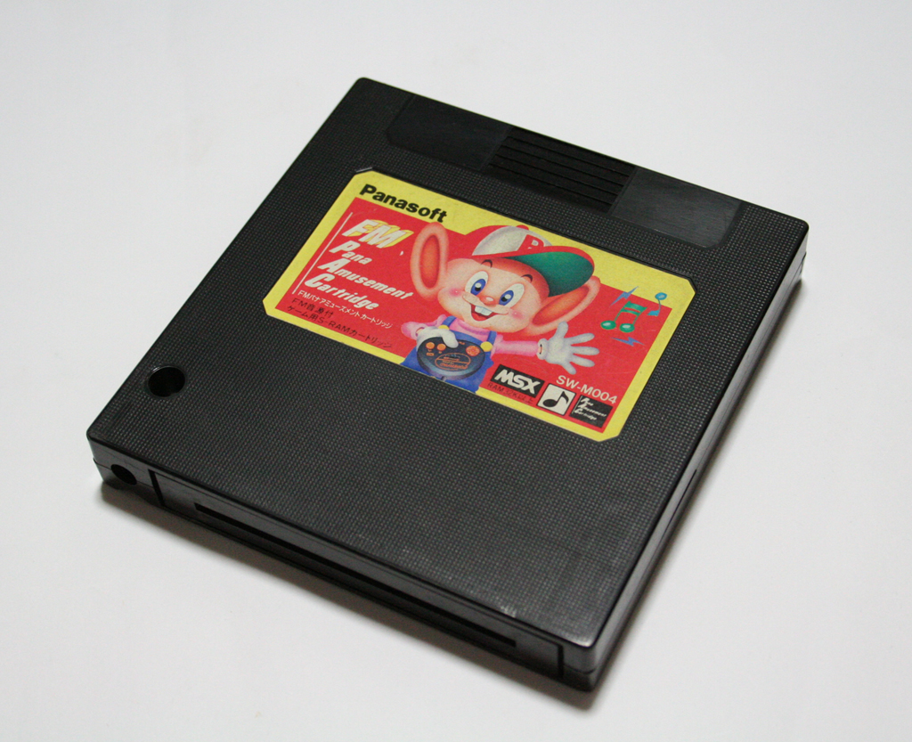 FM sound cartridge Panasonic SW-M004 FM Pana Amusement Cartridge(FM-PAC)